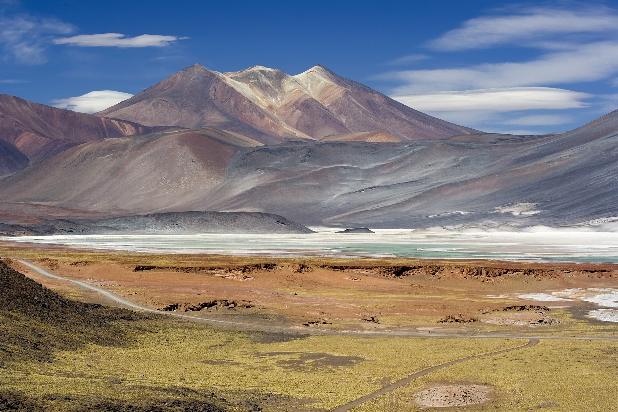 Cerros de Incahuasi mountains with the Salar de Talar salt flat in the foreground near San Pedro de Atacama, 4010 meters, Chile.